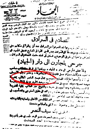 A scanning of a the Al-Gihad Egyptian newspaper clipping publishing the names of injured protesters who participated in an anti-British demonstration in Cairo. The name of "Gamal Abdel Nasser" is highlighted.